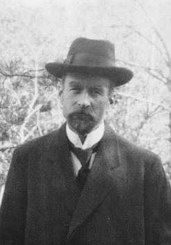 Portrait of Nils Fabian Helge von Koch